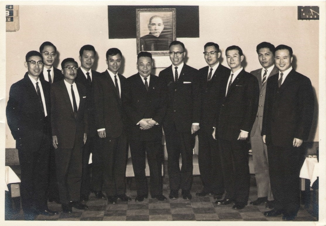 1st Annual Ten Outstanding Young Persons Award, 1963-12